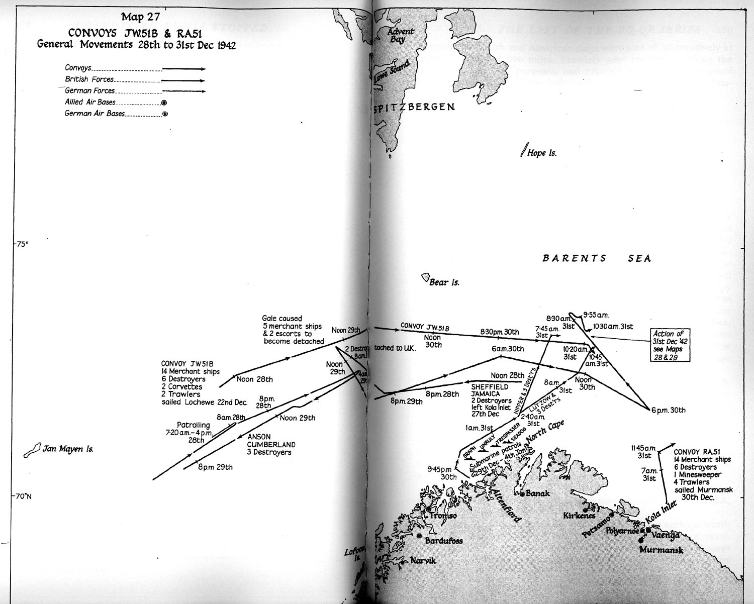 Convoys JW 51B & RA 51. General Movements 28th to 31st Dec. 1942